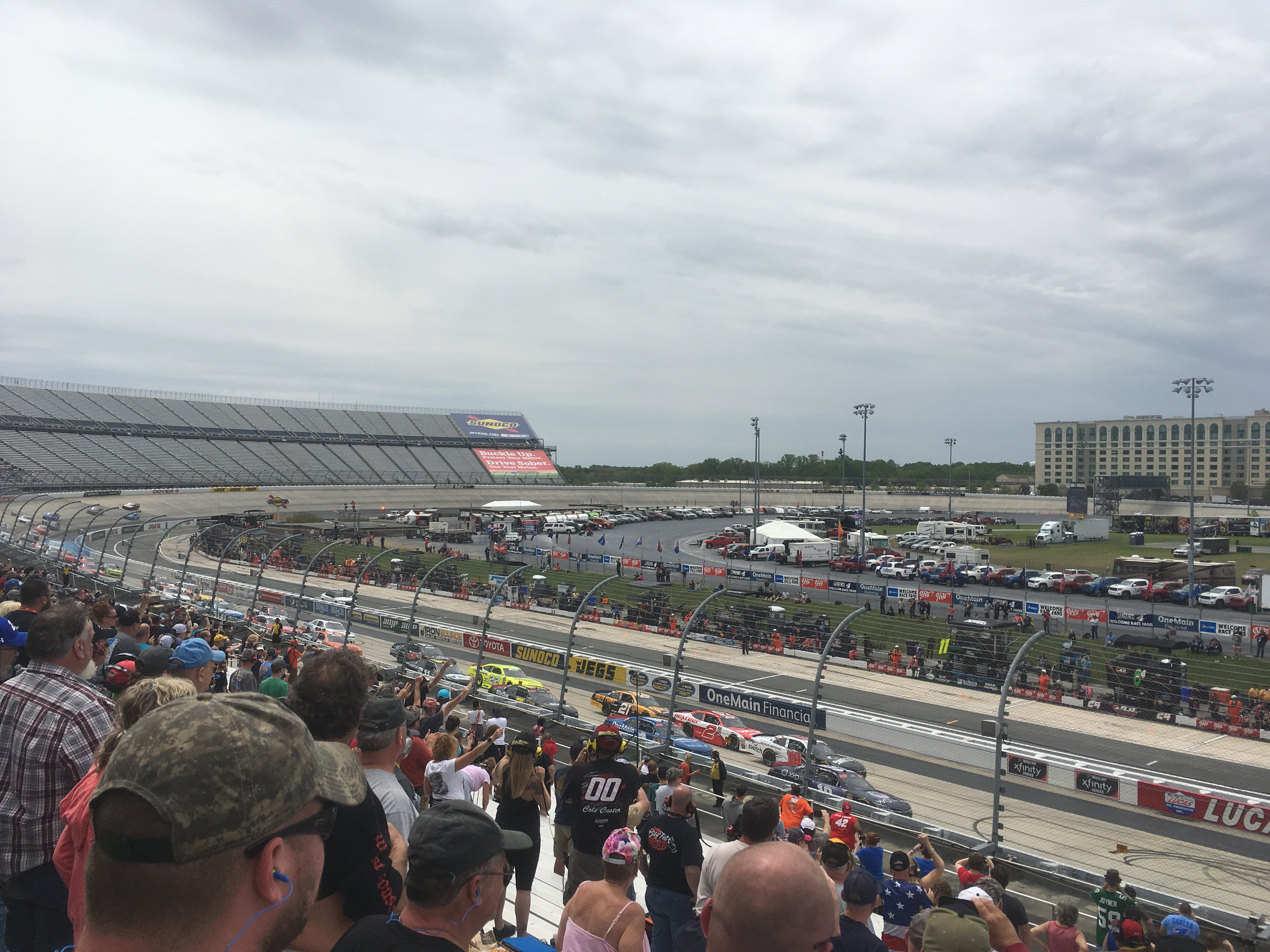 The 2018 OneMain Financial 200 at Dover International Speedway viewed from the frontstretch, with Brandon Jones (#19) leading the field to the green flag.